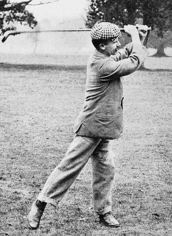 English professional golfer Albert Tingey Senior practices his follow-through, circa 1900.